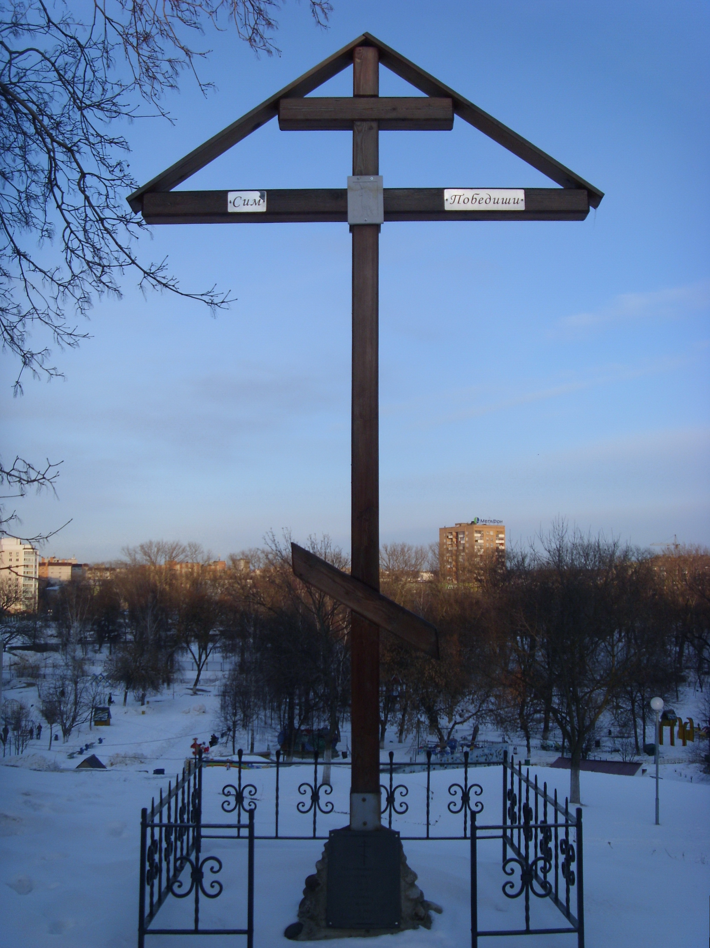 Prostration cross at Egoryevskaya mountain in Oryol